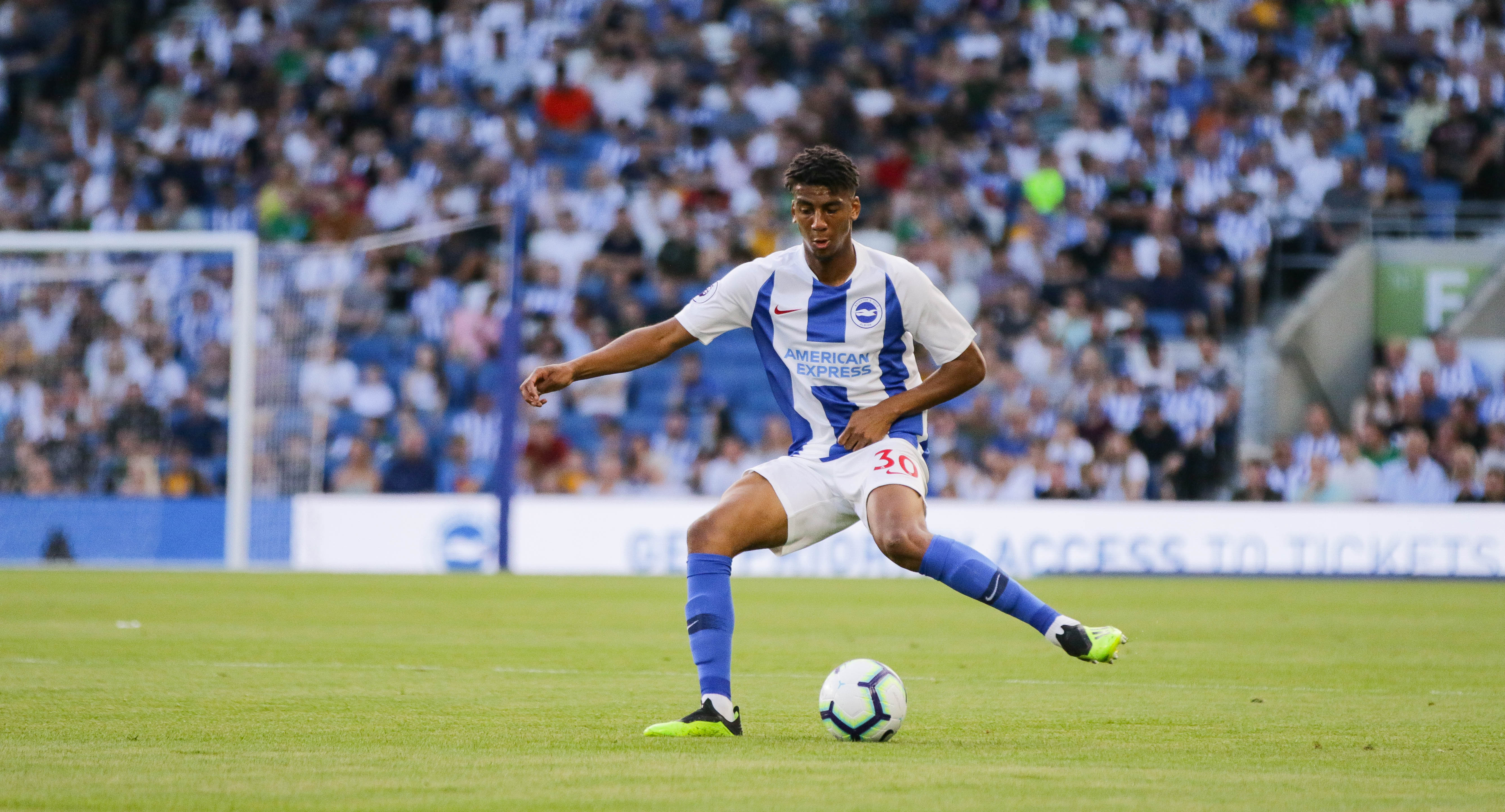 BHA v FC Nantes pre season 03 08 2018-387.jpg